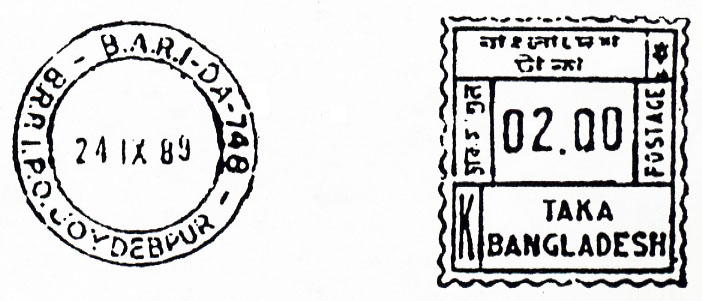 Meter stamp catalog image, Bangladesh type BA4